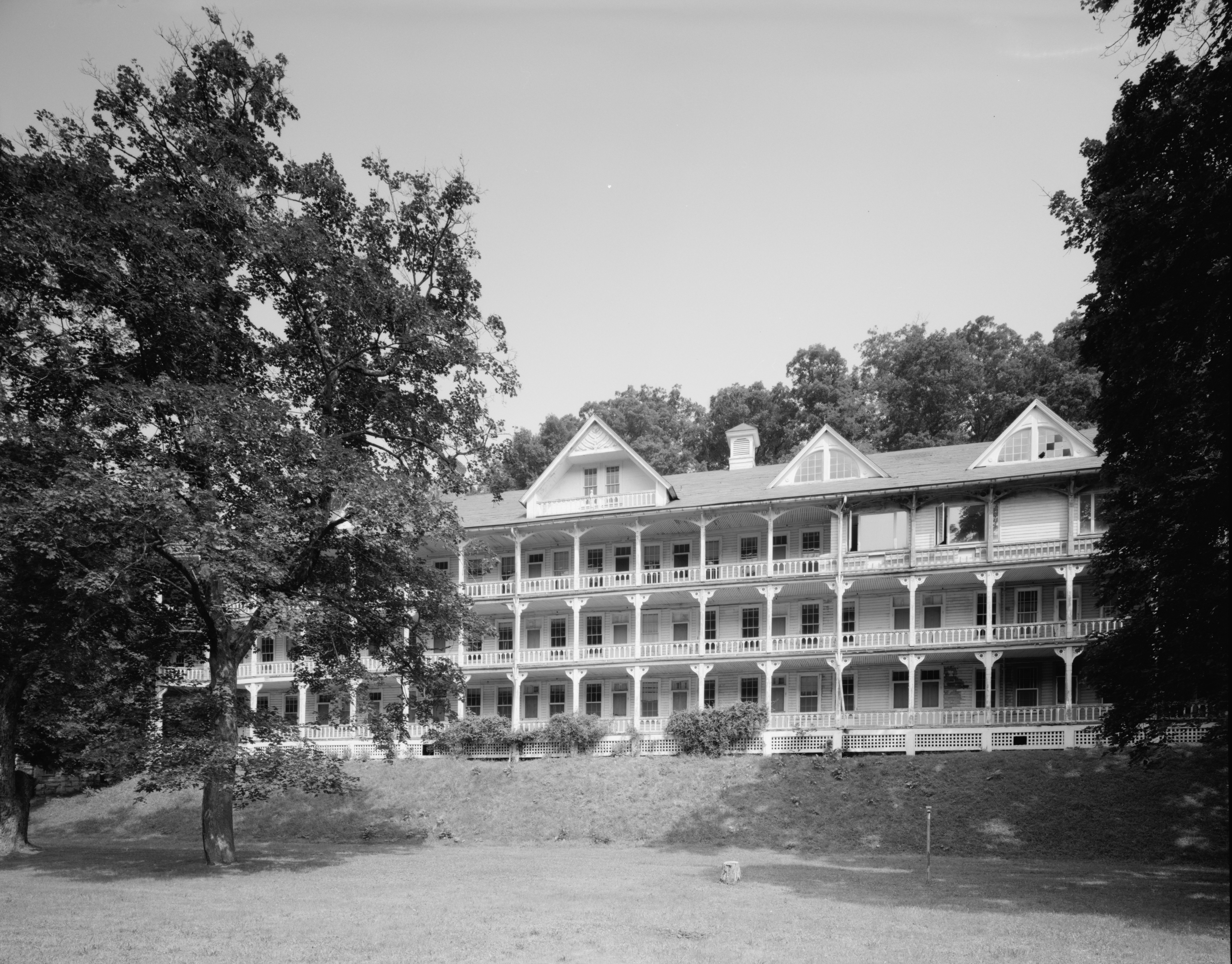 The Bedford Springs Hotel near Bedford, Pennsylvania. Original caption was "East facade of Bedford Springs Hotel."